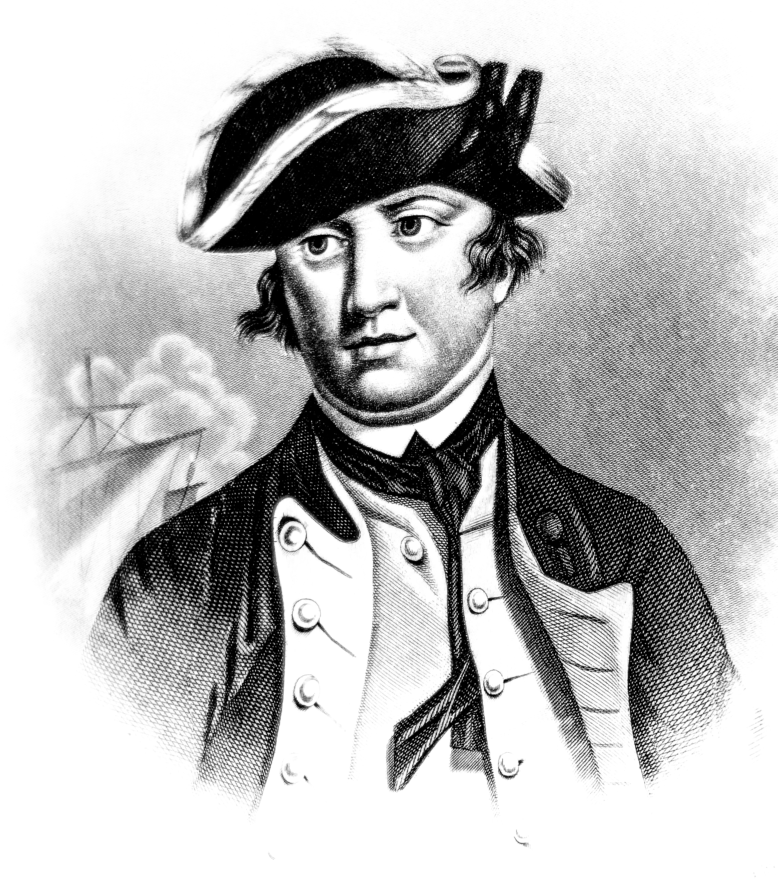 Esek Hopkins engraving